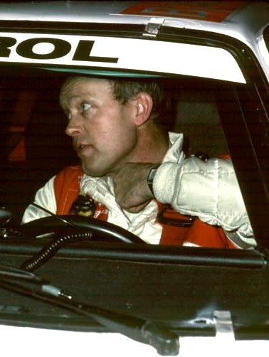 Austrian Rallycross legend Franz Wurz (left) as co-pilot to Swedish Rally star Björn Waldegård (right) pictured during the 1984 Jänner-Rallye in Austria in their Audi quattro.